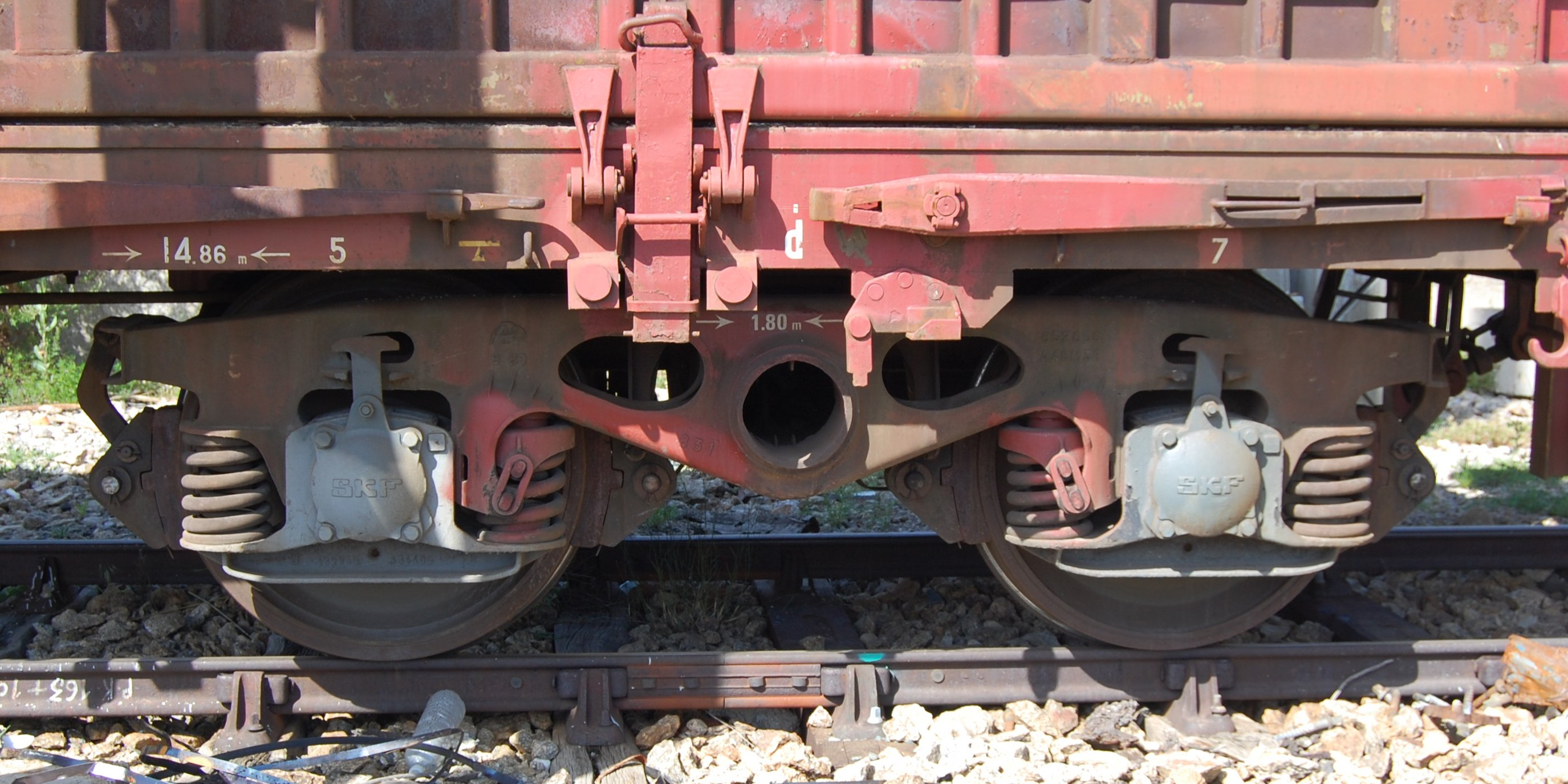 SNCF cast Y 25 bogie